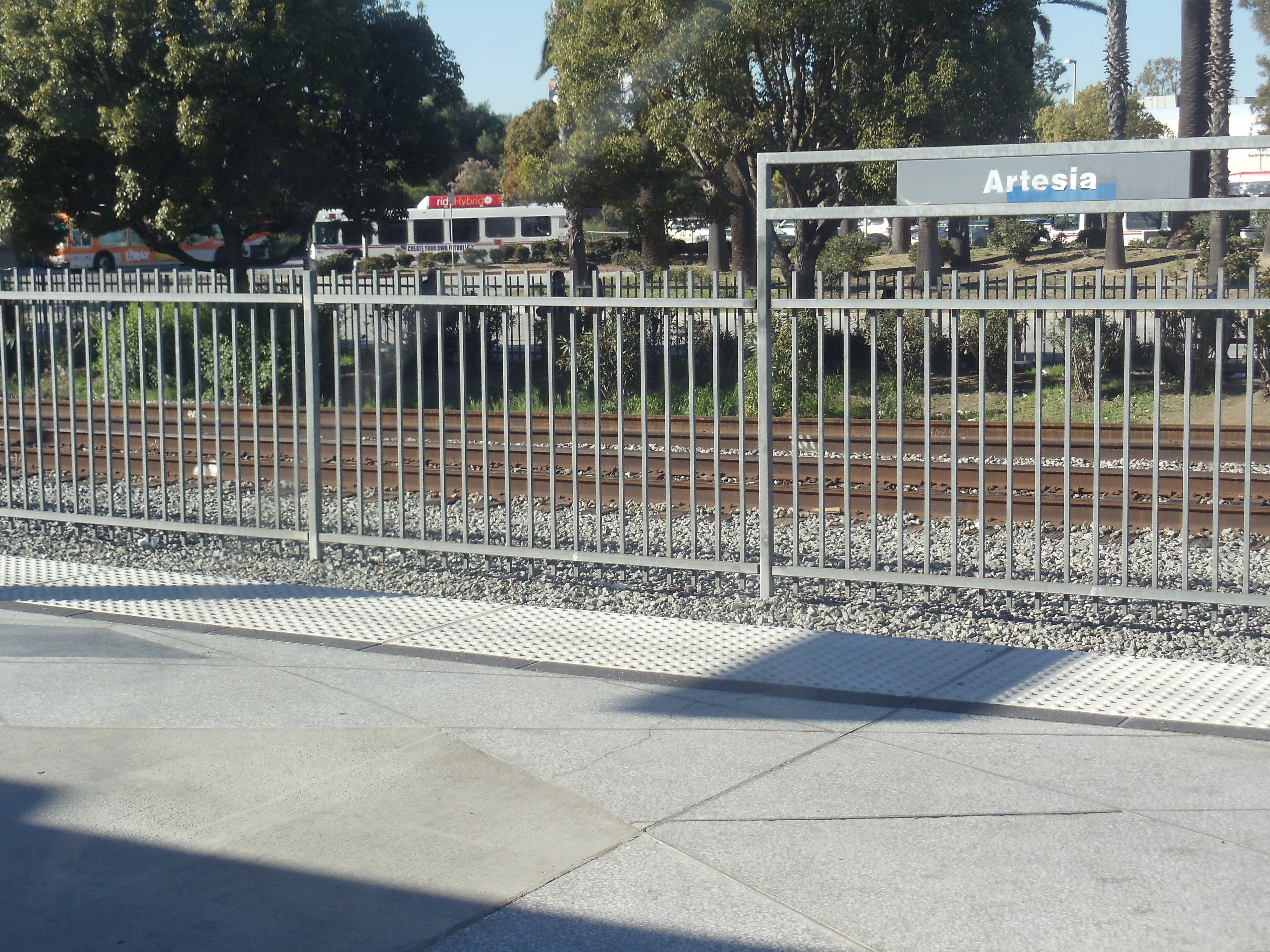 Artesia Blue Line station platform.